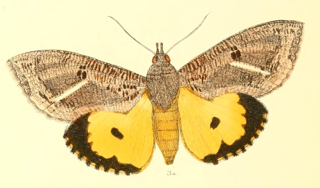 Argadesa materna female Moore, Frederic 1880 On the genera and species of the Lepidopterous Subfamily Ophiderinae inhabiting the Indian Region. Zoological Society of London